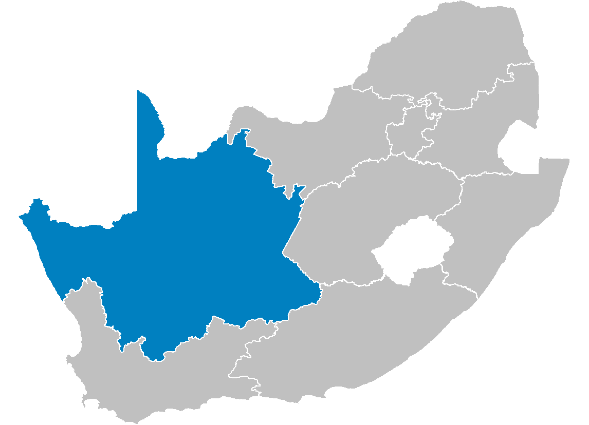 Map of South Africa showing the Northern Cape province after the 12th amendment of the constitution in December 2005.